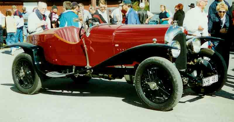 Bentley 3-Litre Boattail 1927